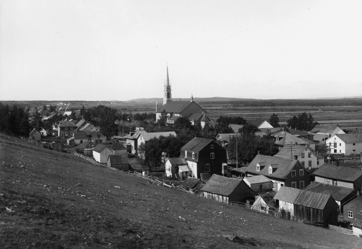 Photograph, Isle Verte, QC, about 1914, Wm. Notman & Son, Silver salts on glass - Gelatin dry plate process - 20 x 25 cm